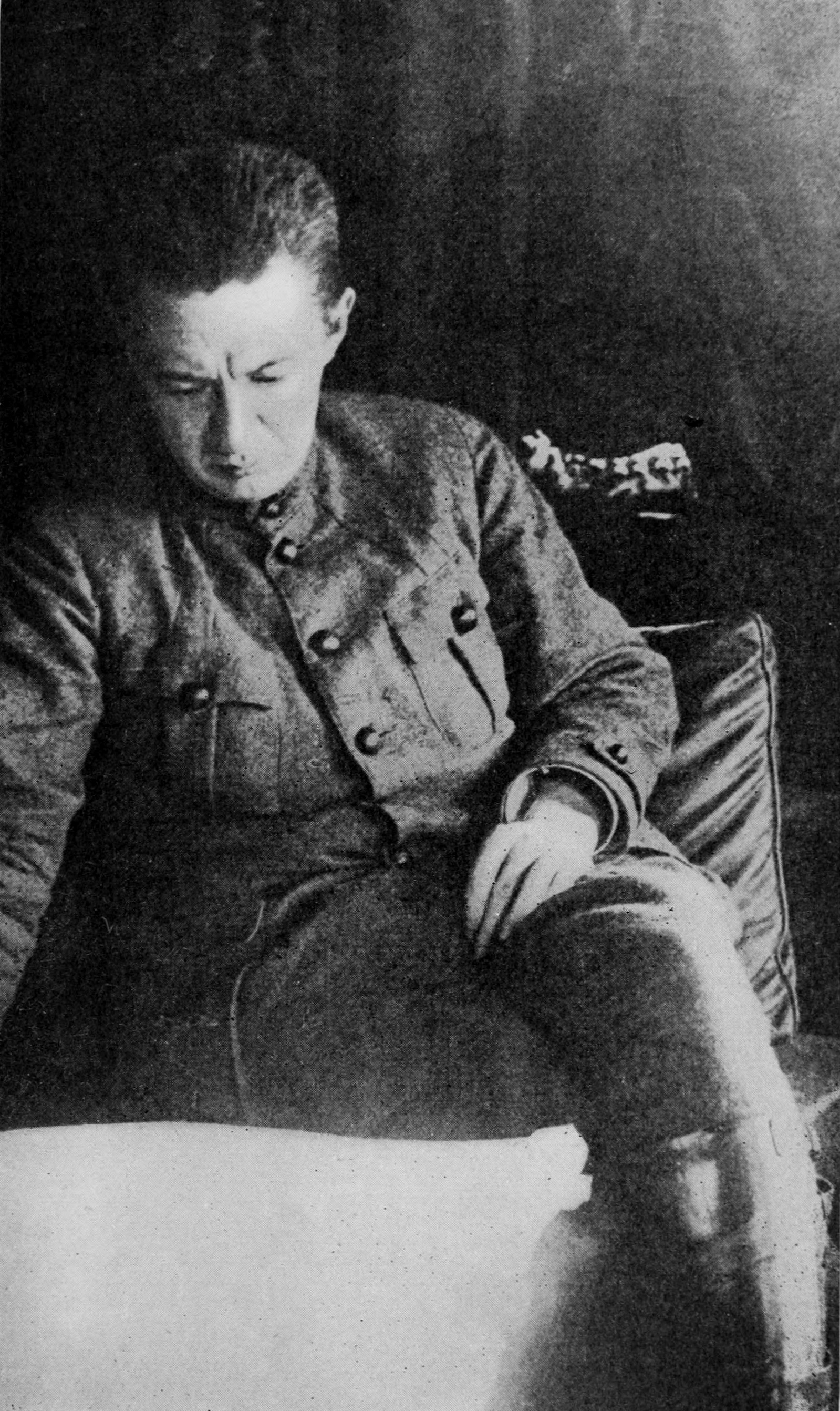 Alexander Fyodorovich Kerensky